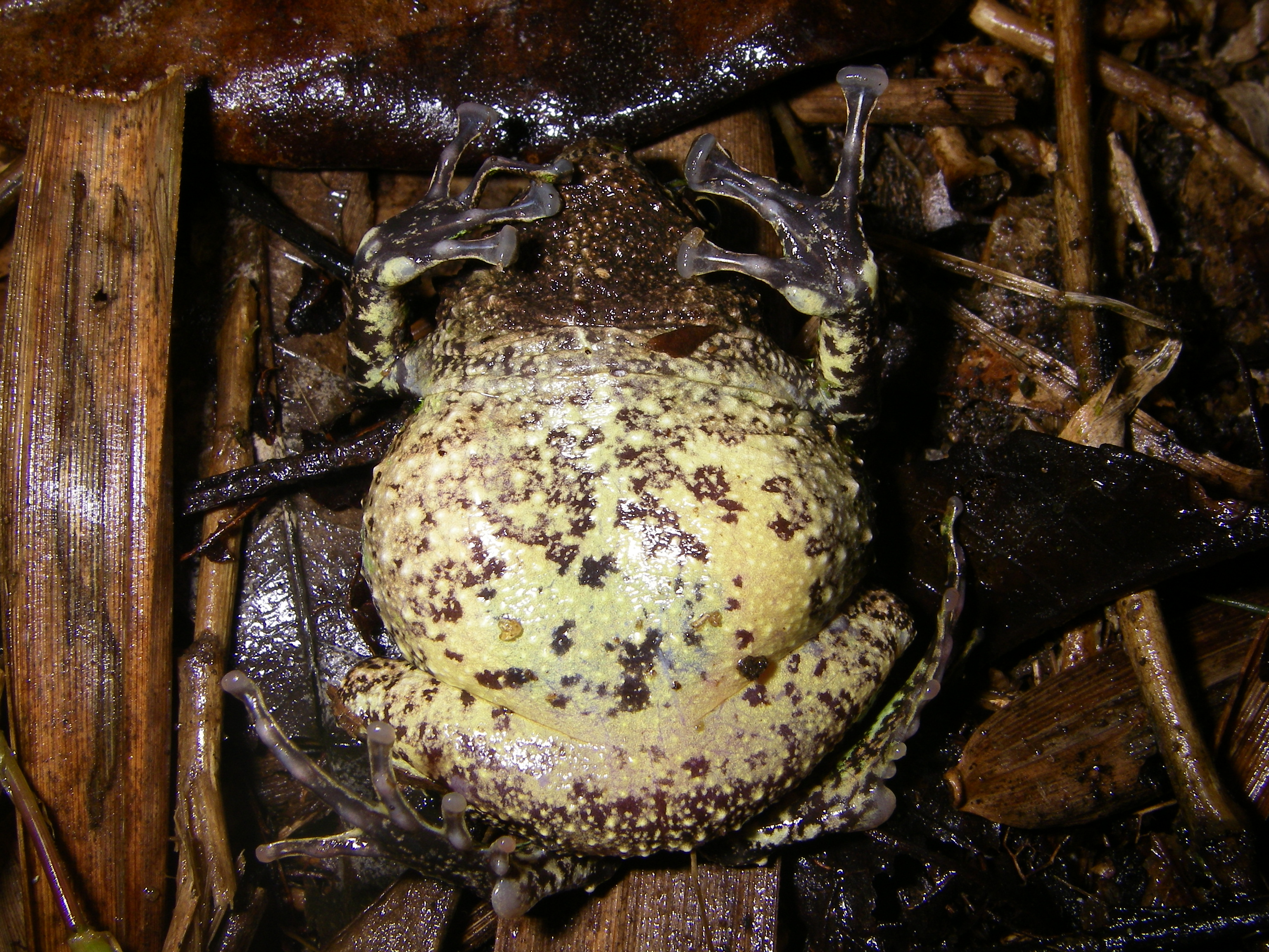 ventral view of Scaphiophryne spinosa (Microhylidae, Scaphiophryninae), Ranomafana National Park, Madagascar